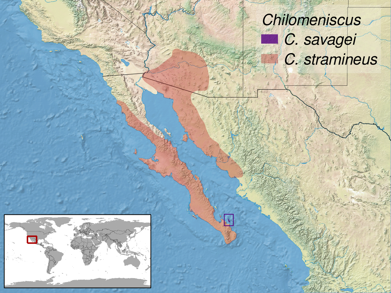 geographic distribution of the genus Chilomeniscus. Included species for RDB: Chilomeniscus savagei (Native: Mexico) and Chilomeniscus stramineus (Native: Mexico; United States)